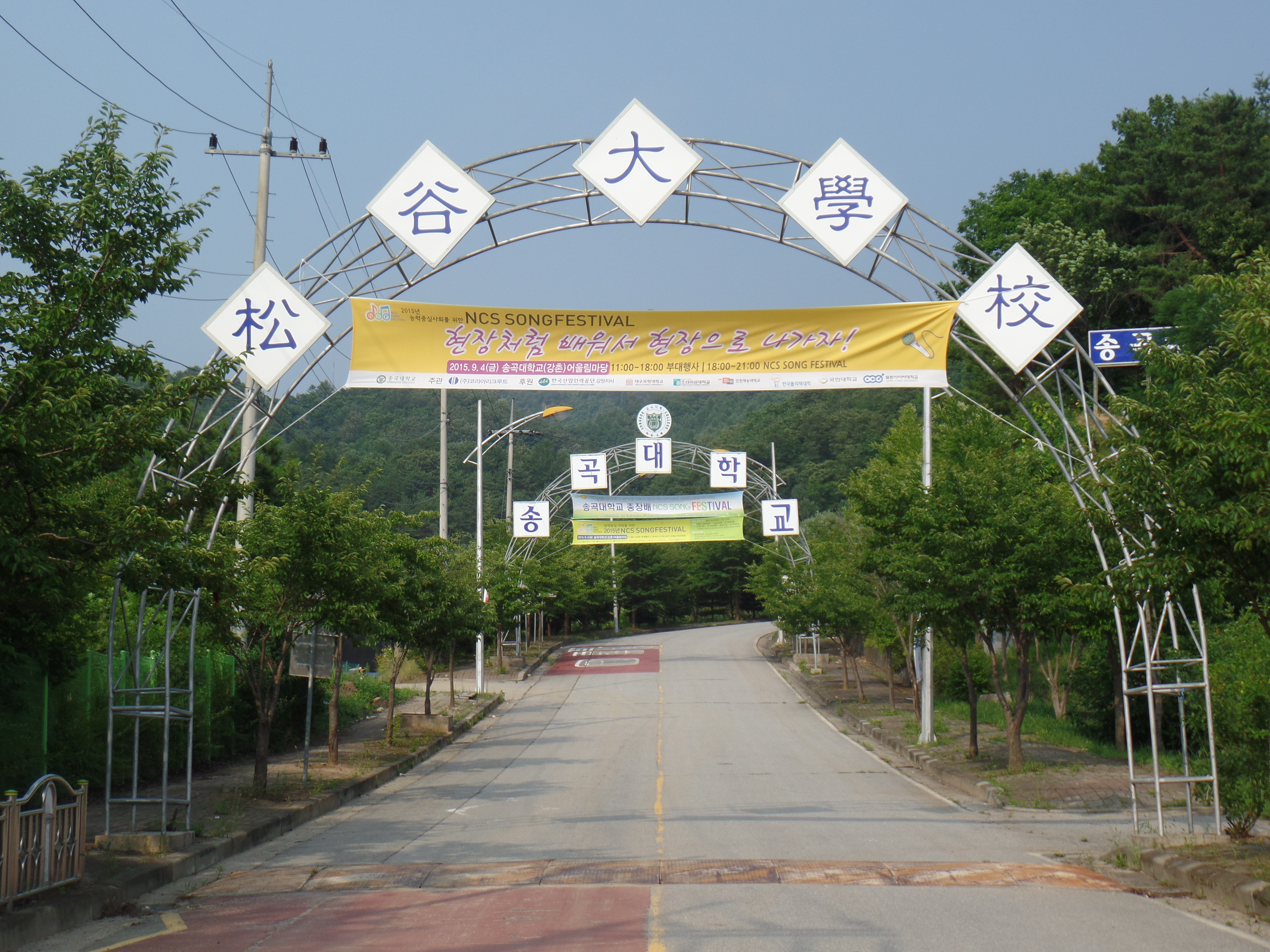 Songgok College Access Road